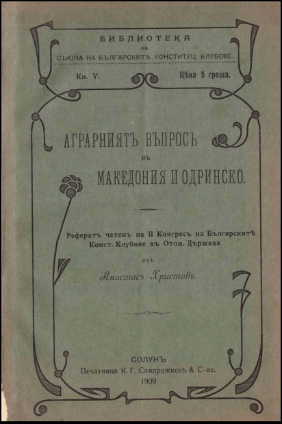 The Agrarian Question in Macedonia and Adrianople Region